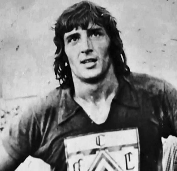 Gerónimo Saccardi playing for Ferro C. Oeste.